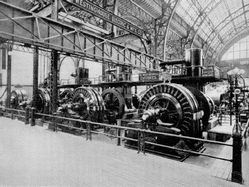 Westinghouse alternating electricity dynamos that provided the lighting for the 1893 World Columbian Exposition in Chicago. These were part of the Westinghouse exhibit in the Machinery (not Electricity) building.